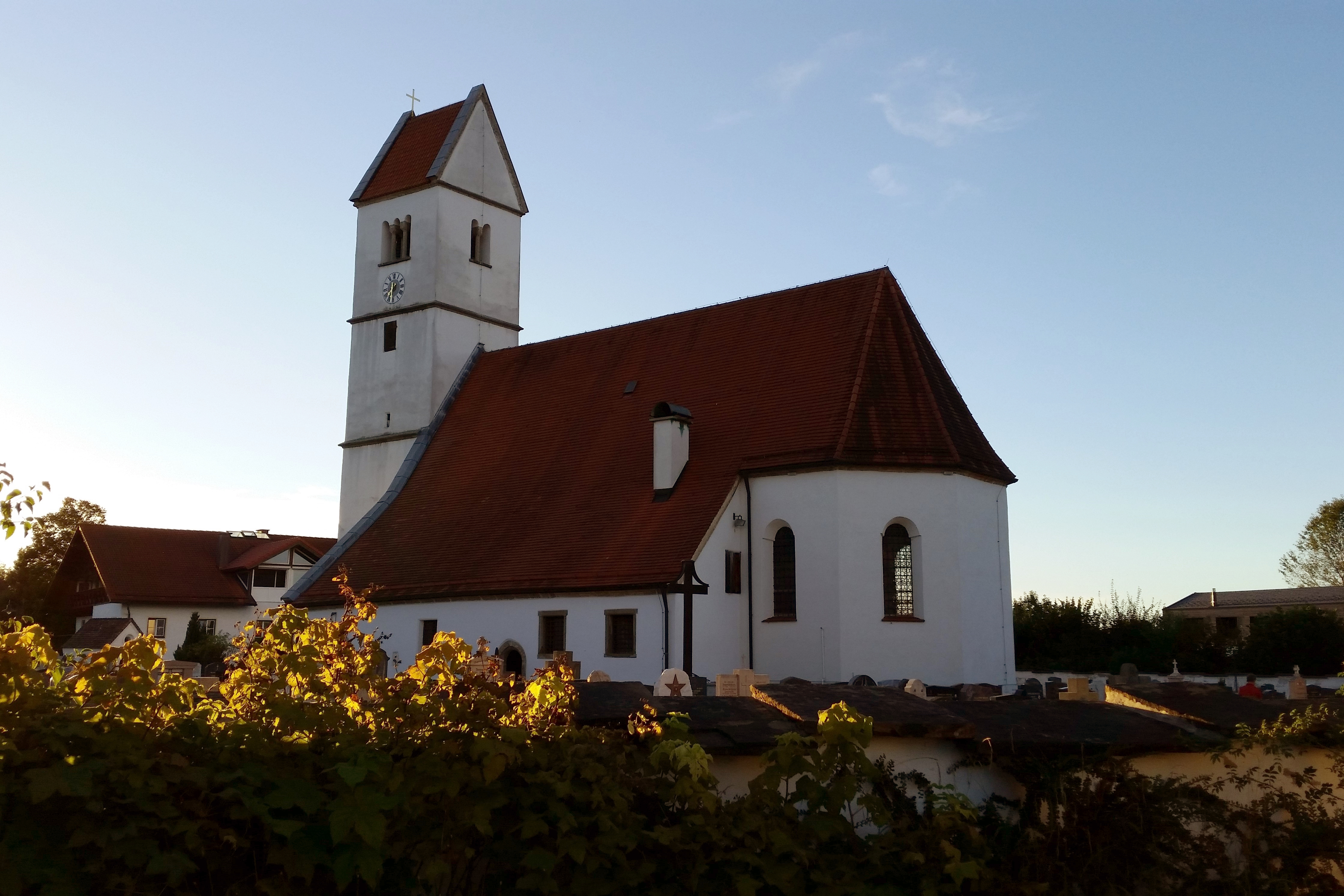 This is a photograph of an architectural monument.